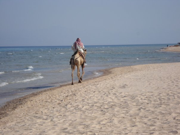 Sinai Beach (beer sweir) and a Camel